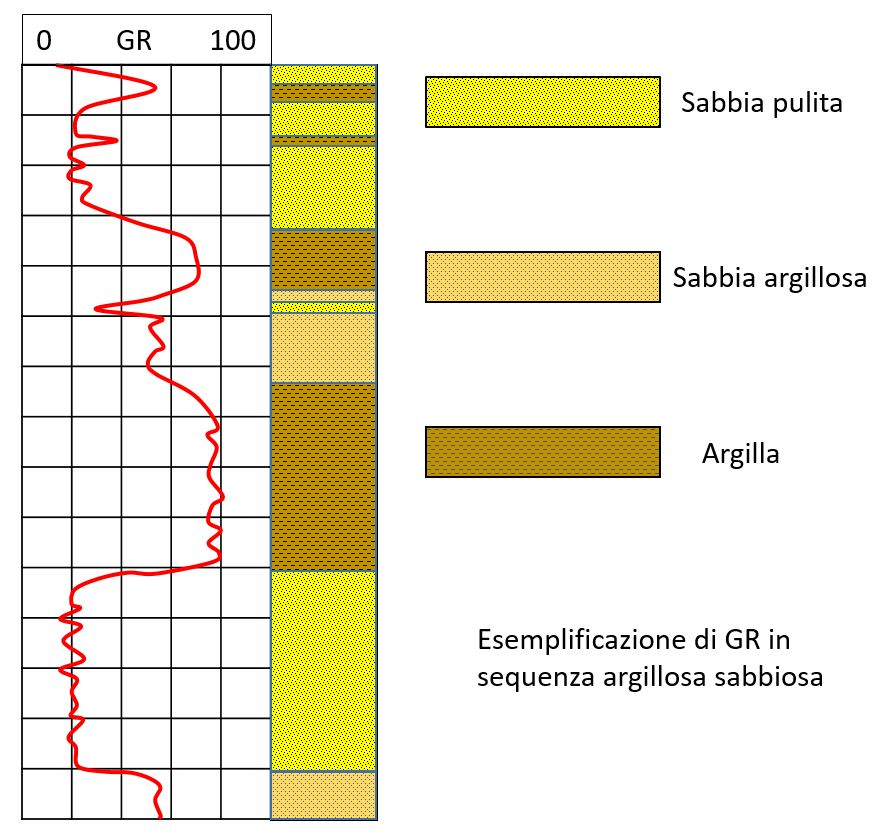 Example of GR log in clastic sequence